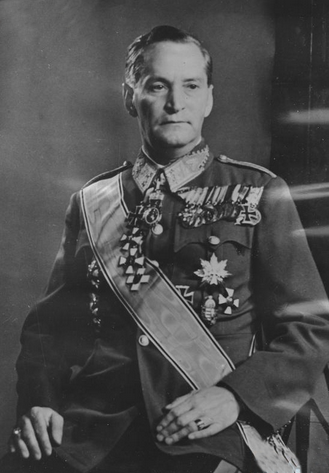 Field marshal lieutenant Béla Miklós de Dálnok in November 1942